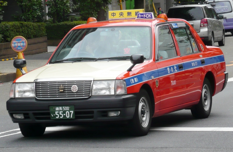 Toyota Crown Comfort.